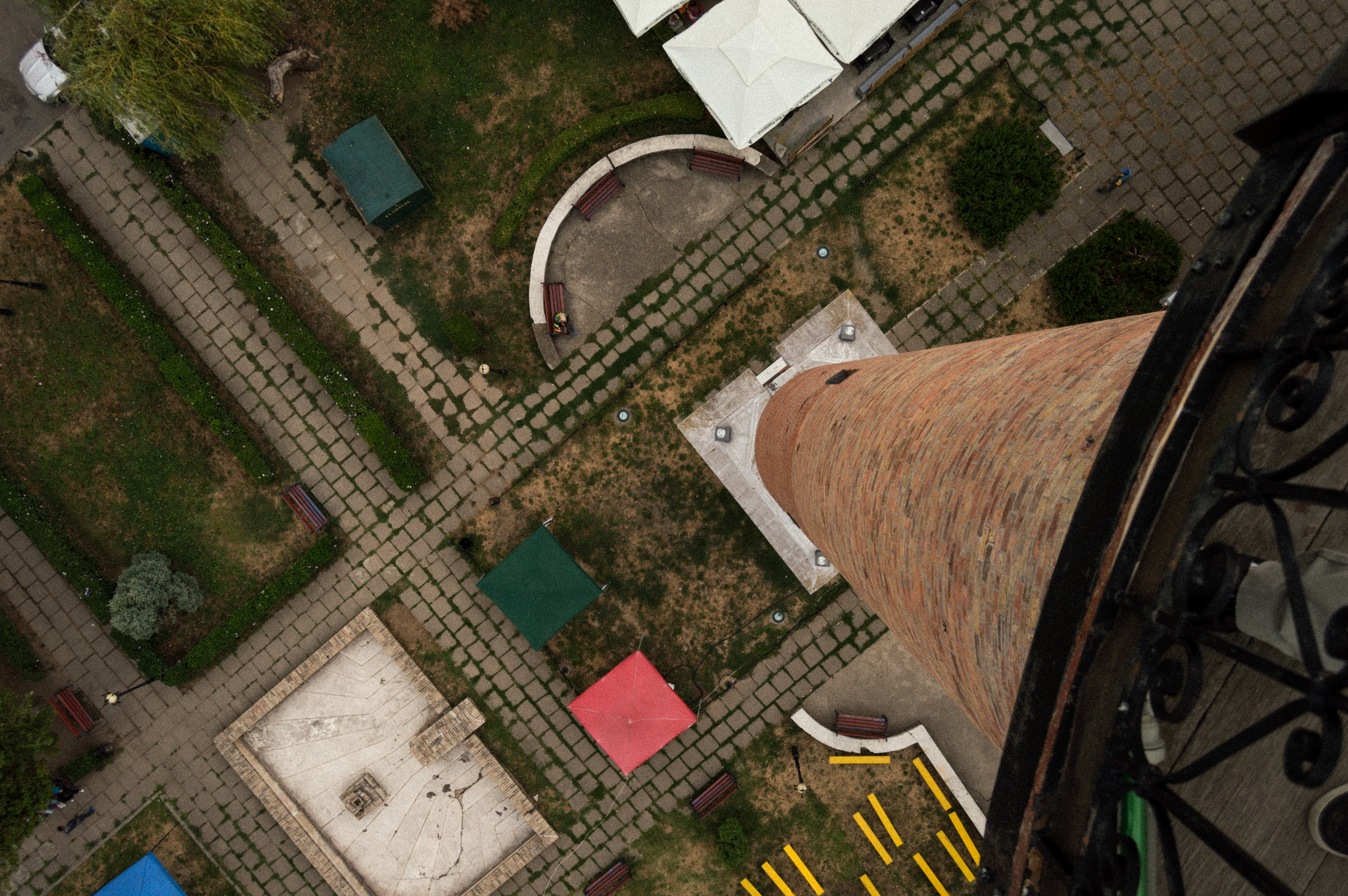 Firemen's Tower (Satu Mare)